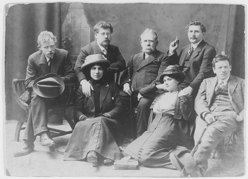 Group of Jewish anarchists in London: (back row from left to right) Ernst Simmerling, Rudolf Rocker, Wuppler, Lazar Sabelinsky, Loefler, (front row) Milly Witkop, Milly Sabel